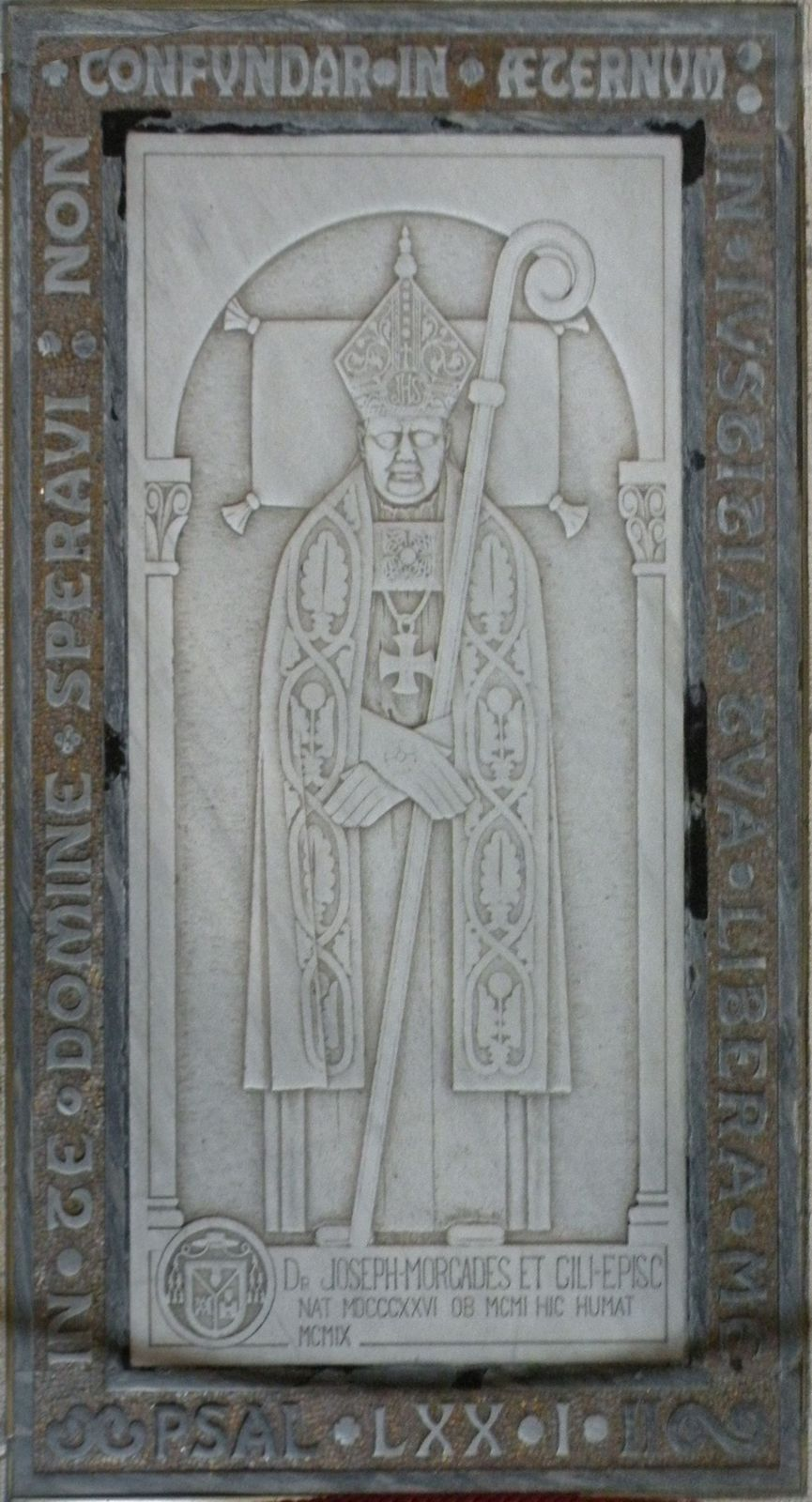 Tombstone of the tomb of Bishop Josep Morgades i Gili. Monastery of Santa Maria de Ripoll